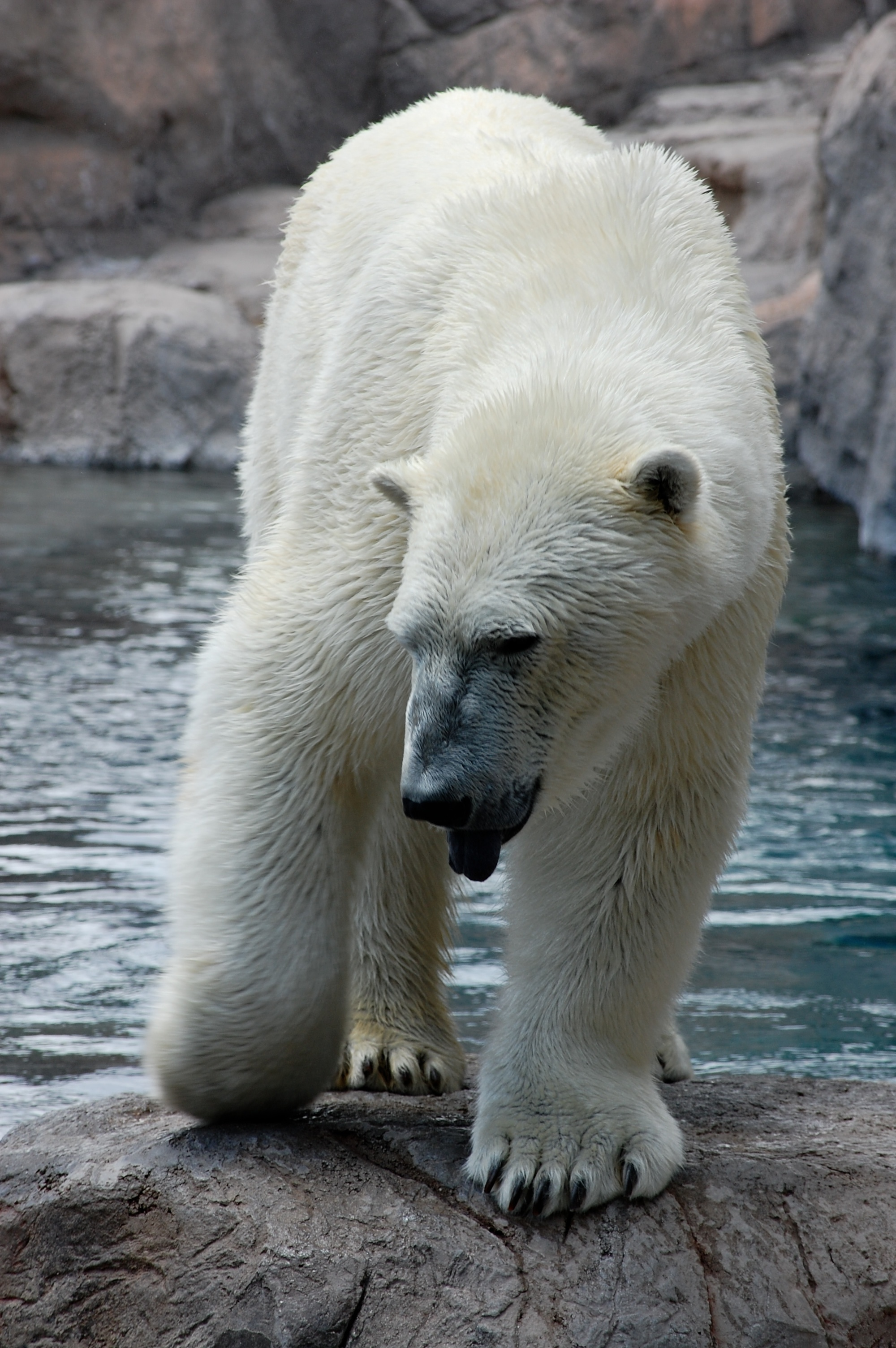 A polar bear at Rio Grande Zoo, New Mexico, USA.